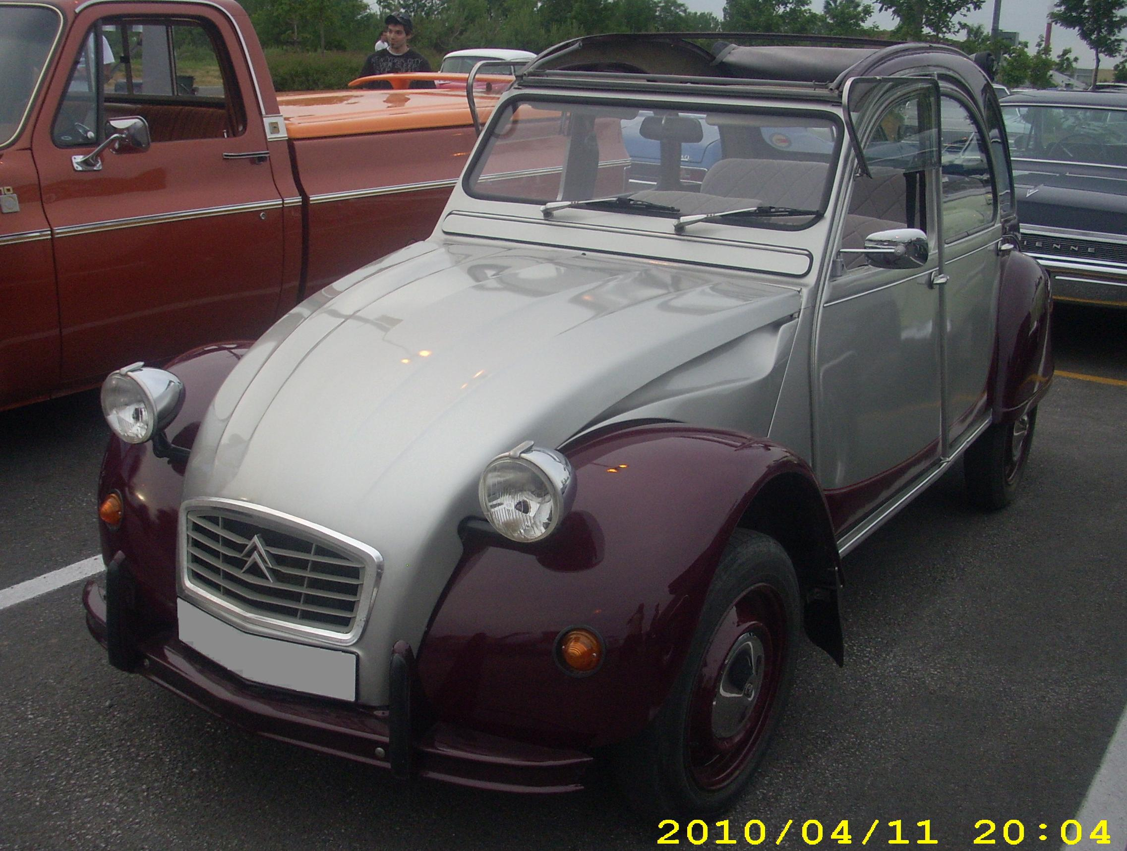 Citroën_2CV photographed in Laval, Quebec, Canada at Centropolis Laval.